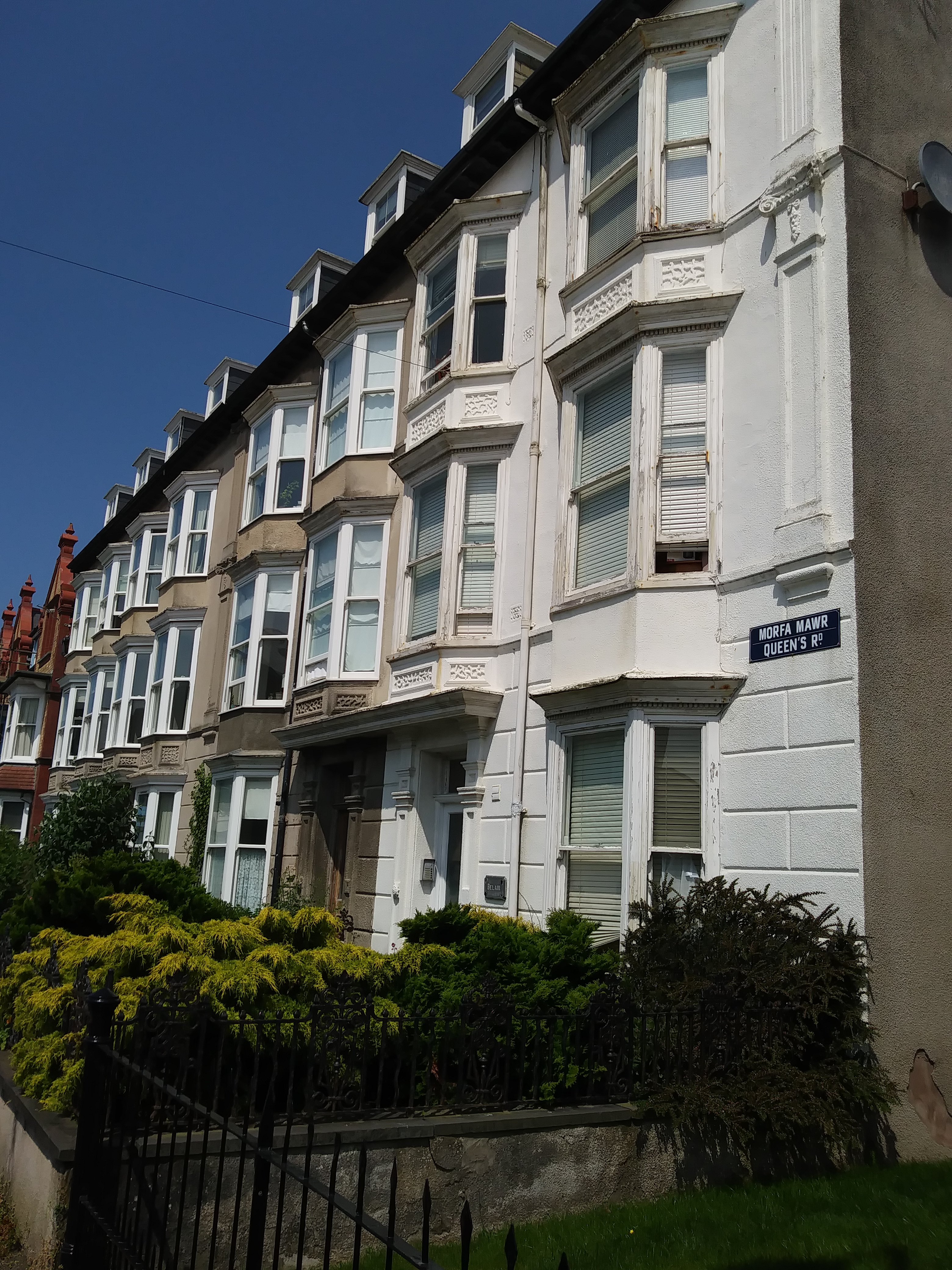 Queen's Rd, Aberystwyth, row